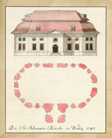 Plan (1797) of St.John's church Valga, Estonia. Architect Christoph Haberland.